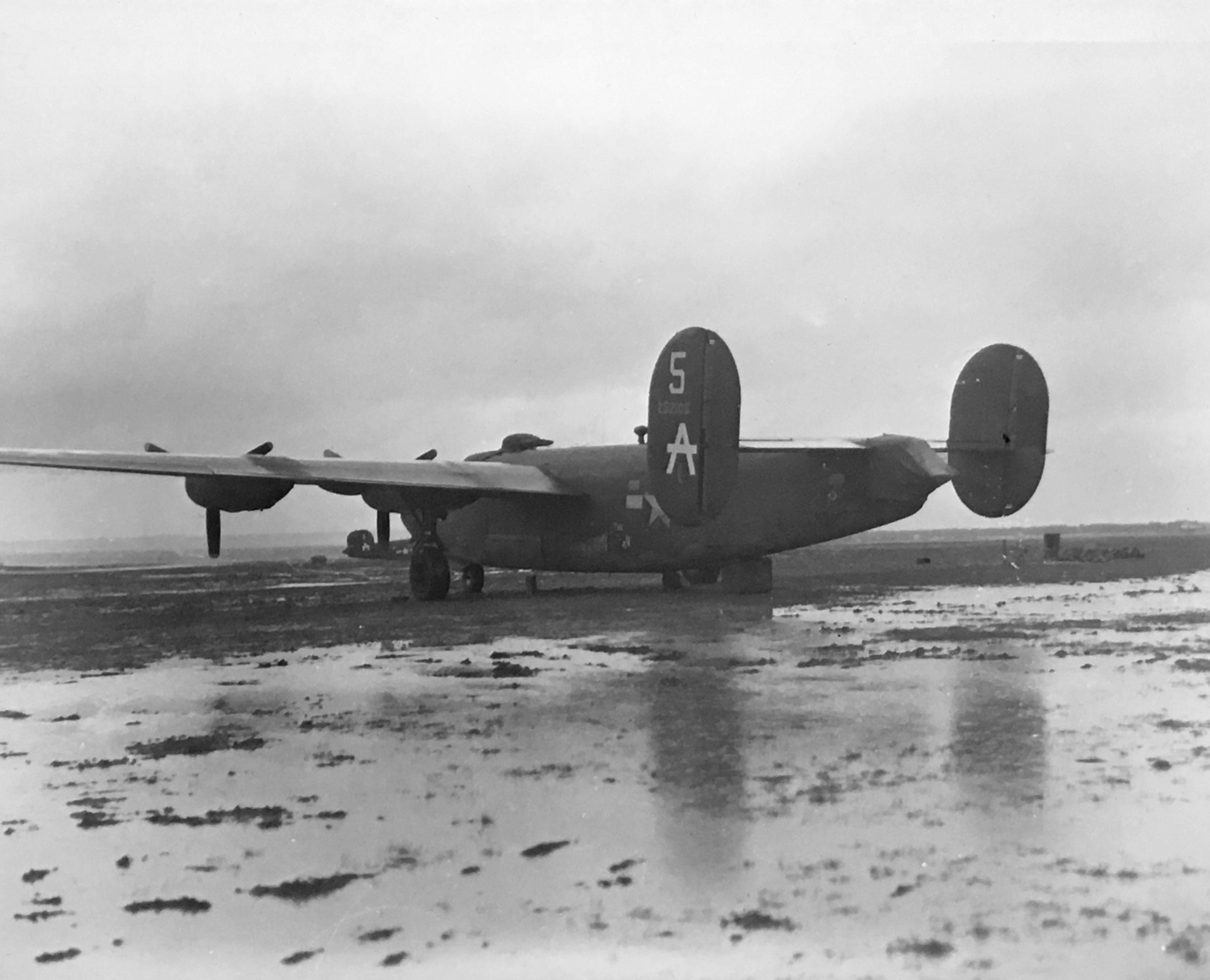 449th Bomber Group painted the "Bar A" on their tail in honer of their Commander, Col. Darr Alkire, who was shot down and captured by the Germans